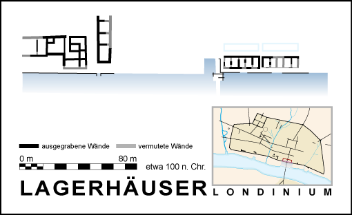 Plan of storage houses at the thamse riverside Londinium, today London, app. 100 AD